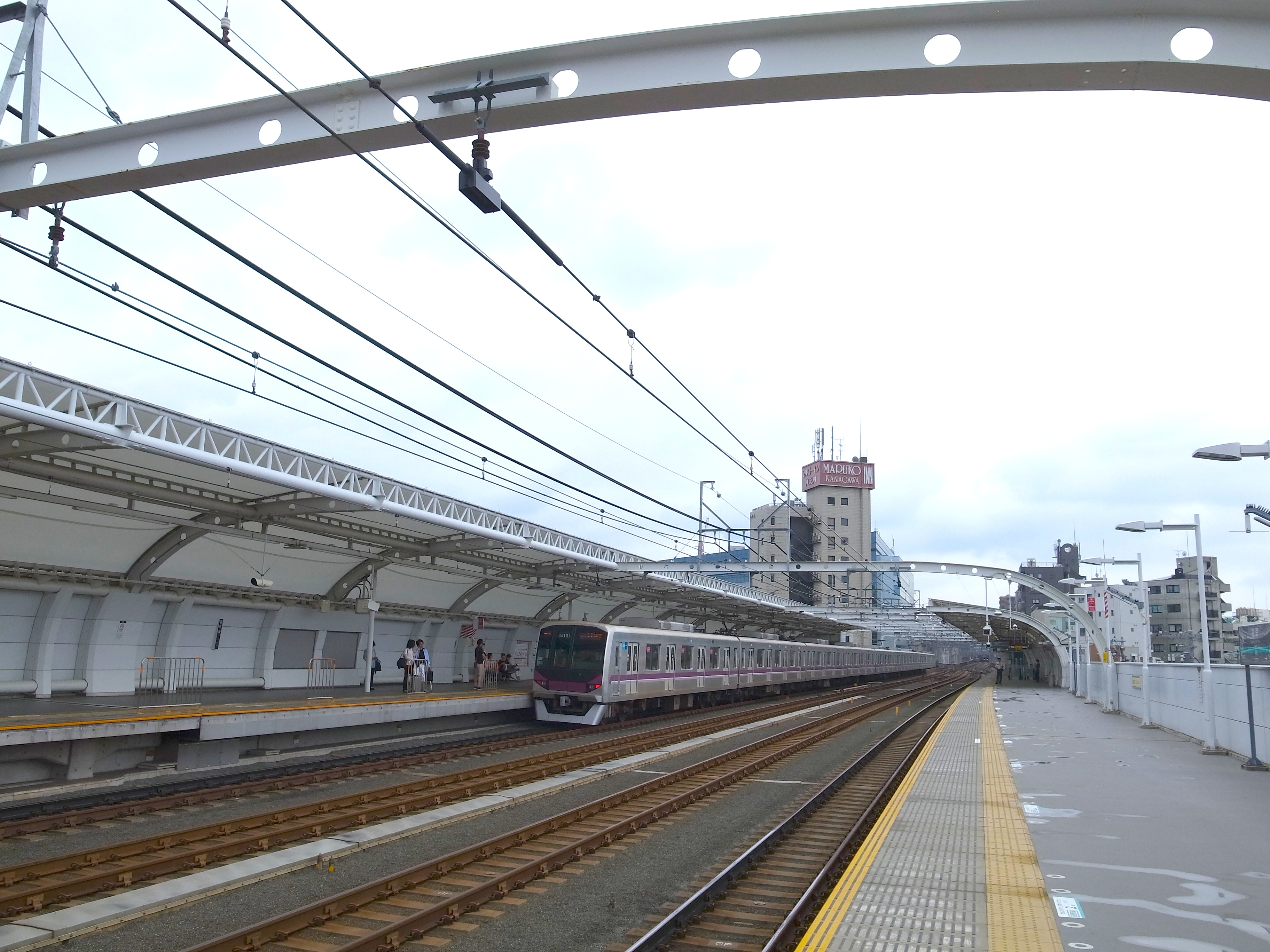 The platforms at Takatsu Station, with a Tokyo Metro Hanzomon Line 08 series train departing